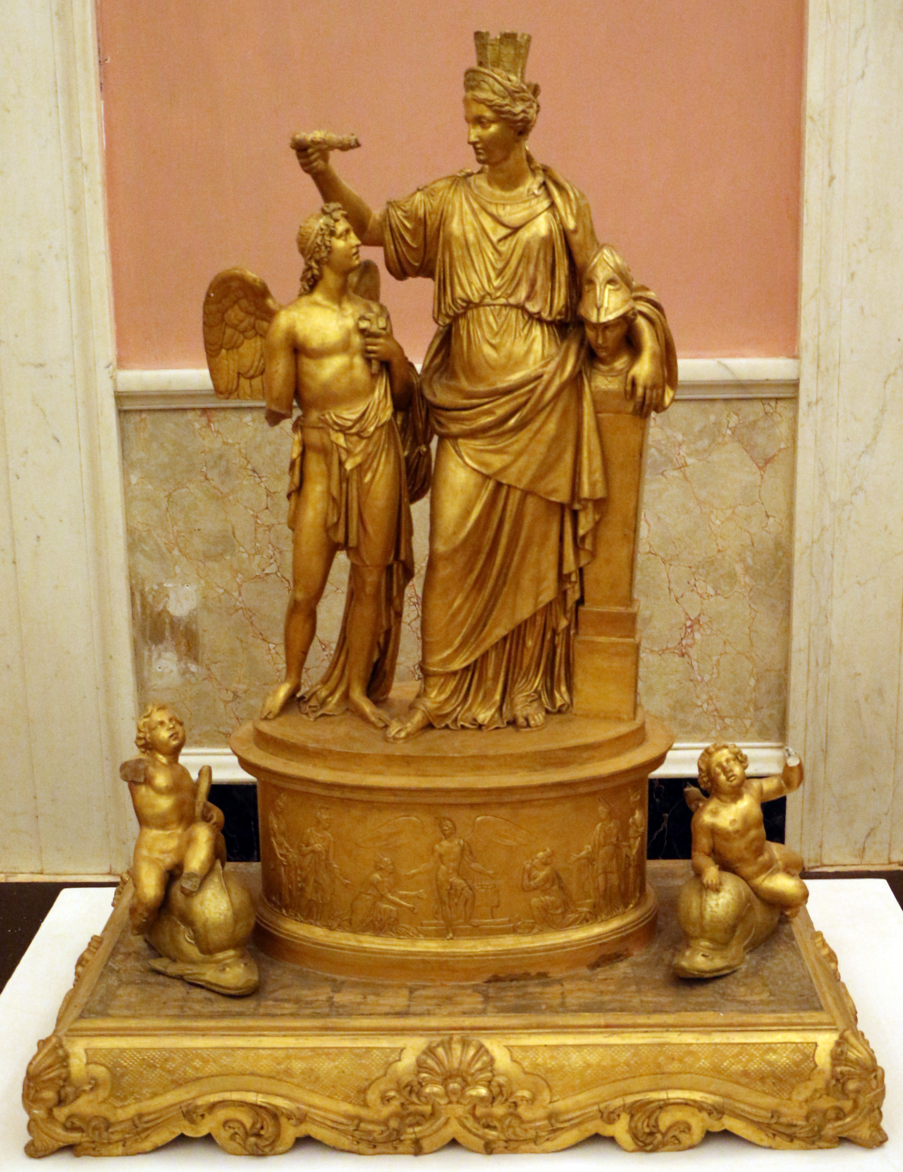 Palace of Caserta